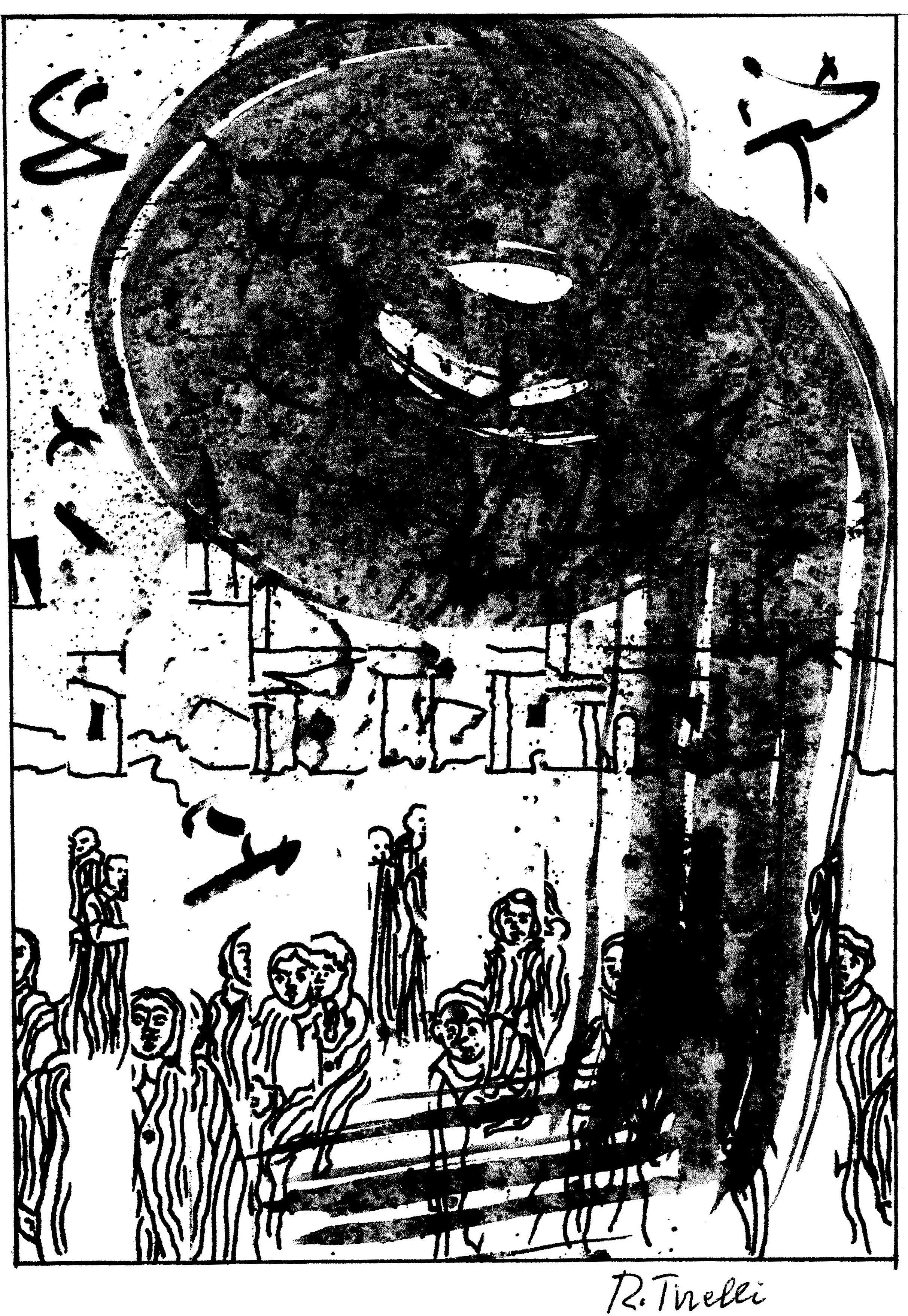 Che le nubi si allontanino; Roberto Tirelli; from: I sette rimbalzi del destino; Ferdinando Albertazzi, Paolo Garzella